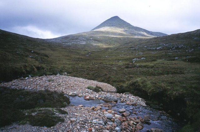 An Cliseam from the Abhainn Mharaig, just off the main road to Lewis.